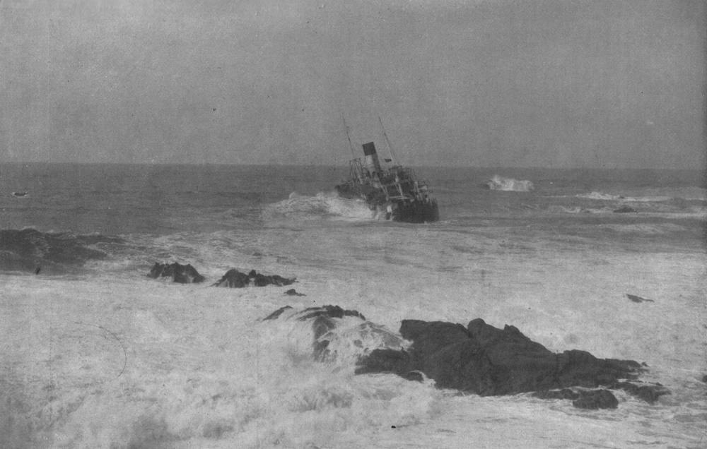 The british steamship Veronese stranded near Vigo.